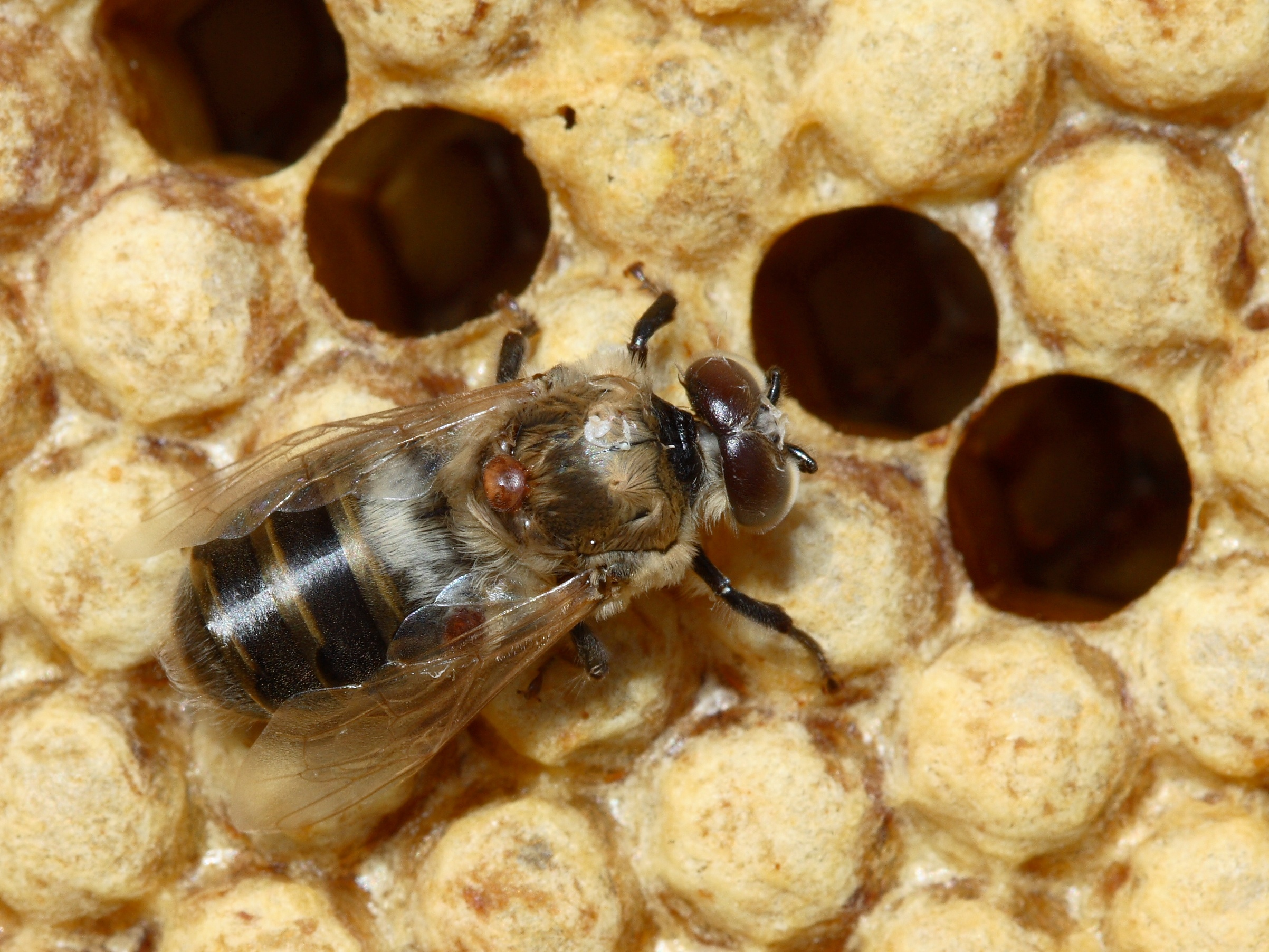 2 mites Varroa destructor on a drone of the western honey bee recently hatched